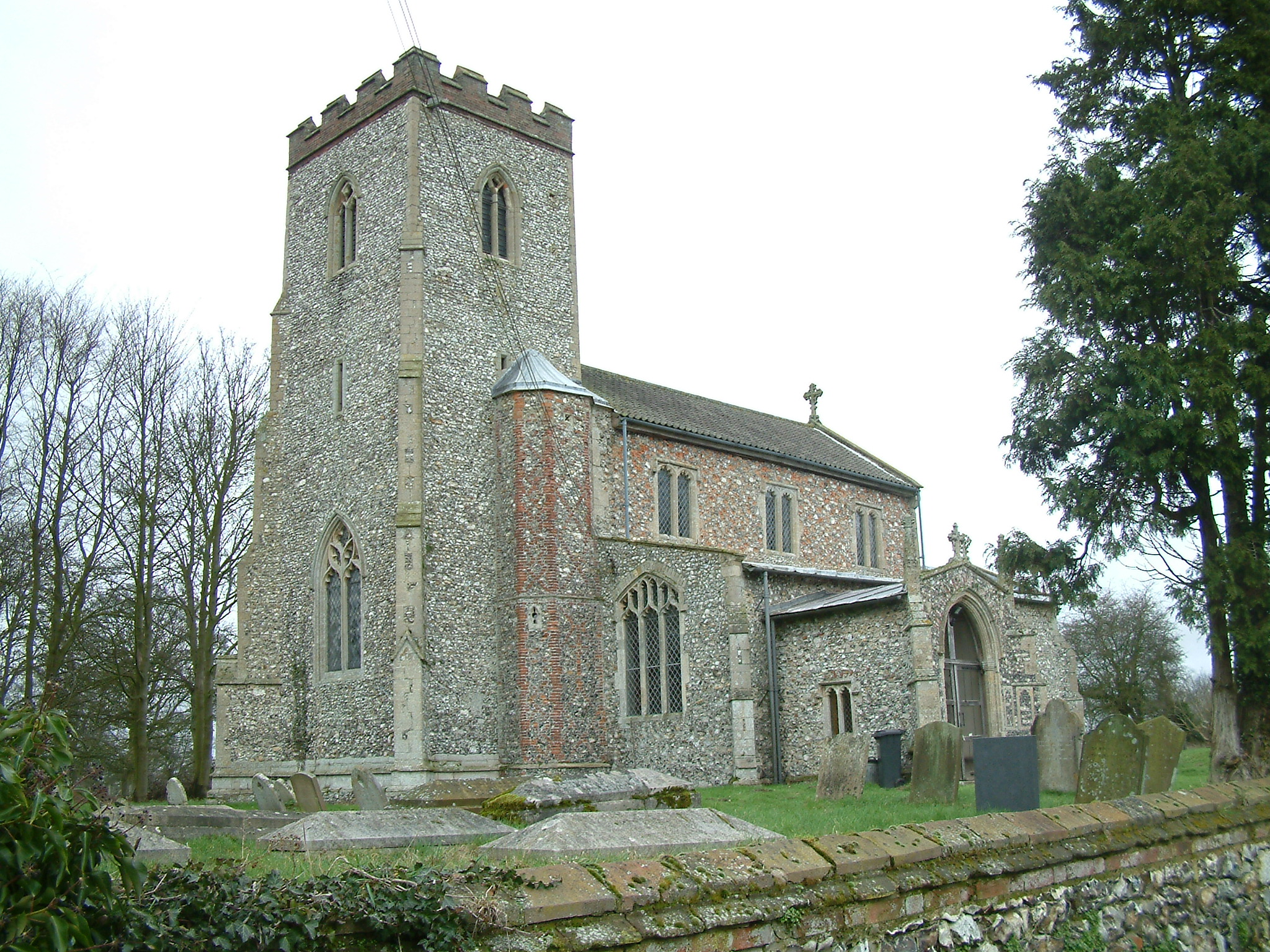 St Andrew's Church Little Massingham, Norfolk